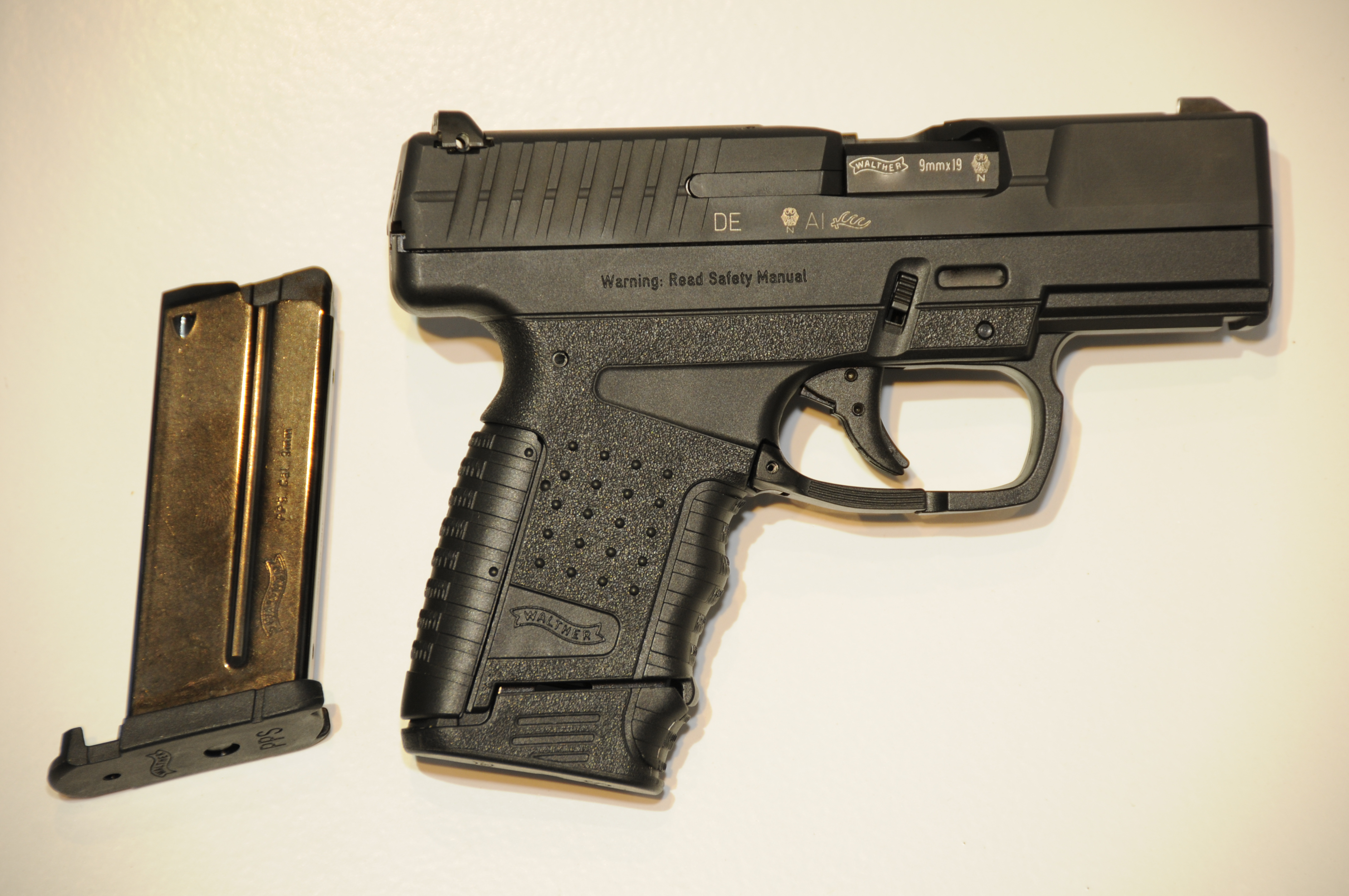 Walther's new sub-compact 9mm, the PPS, with 7 round magazine in and the 6 round mag. on the side. Notice how the 7 round magazine extends the grip and makes it more comfortable to handle.